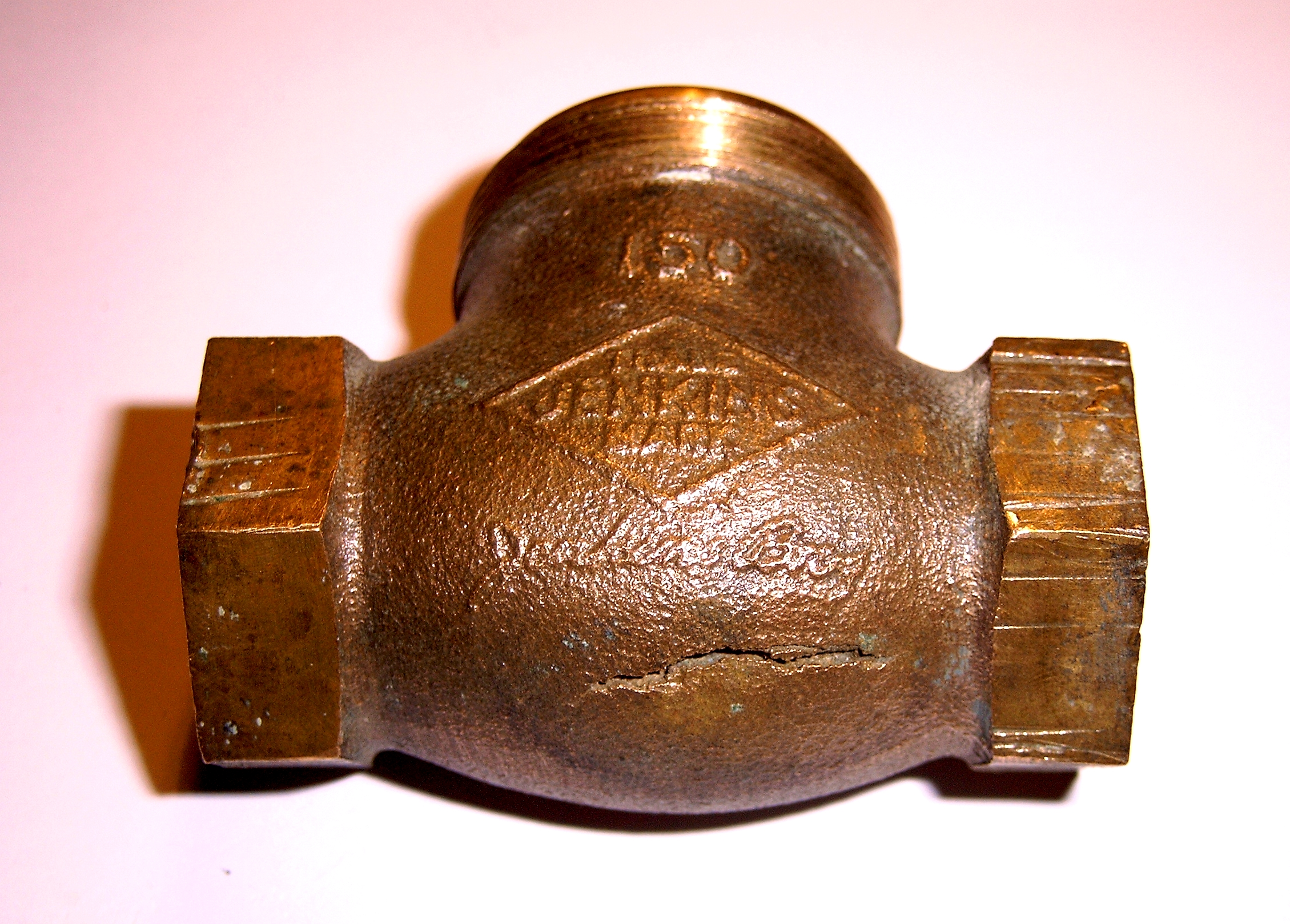 cracked valve due to internal formation of ice